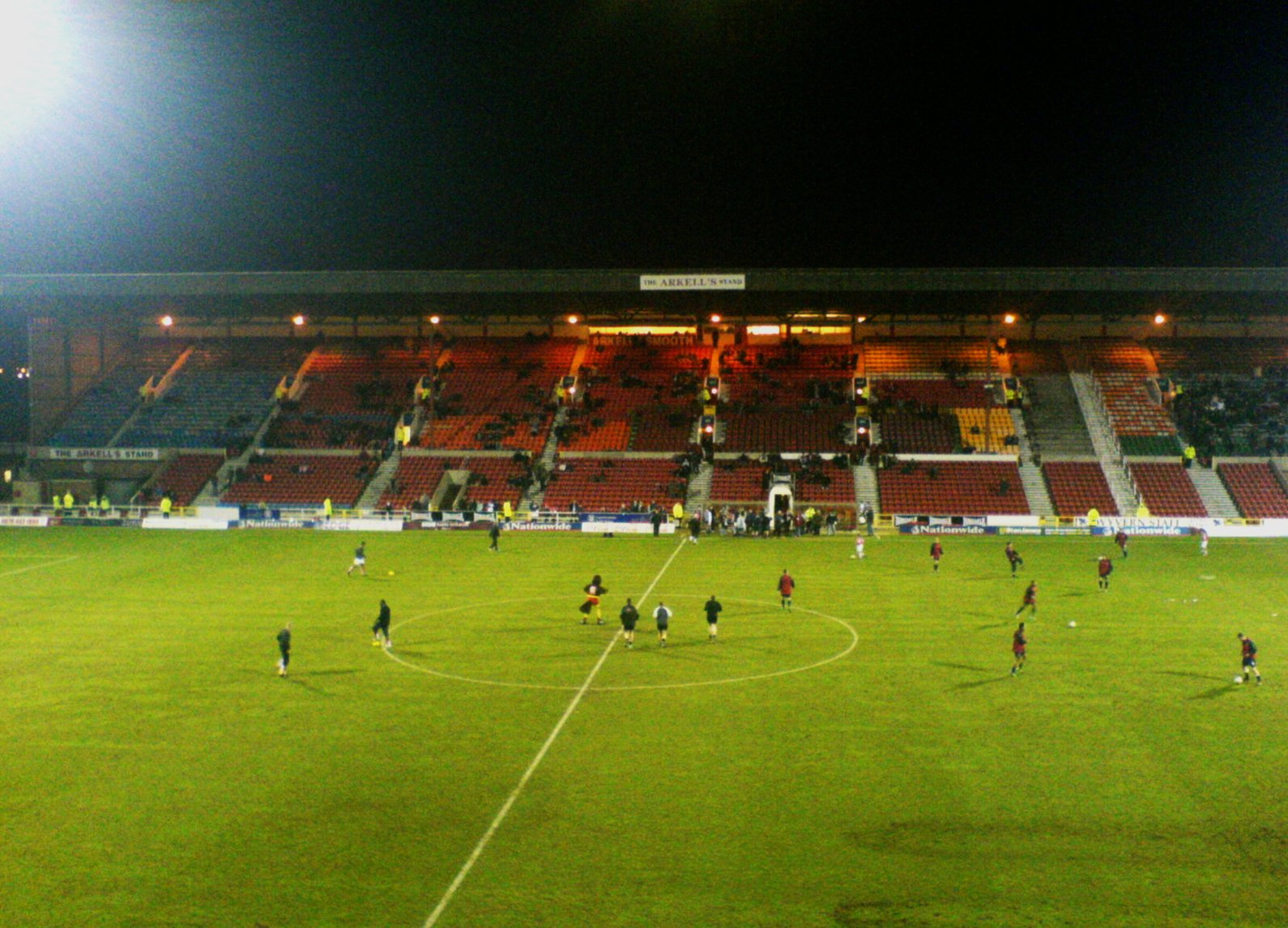 Photograph of inside Swindon Town F.C.'s stadium, the County Ground. Taken by myself.